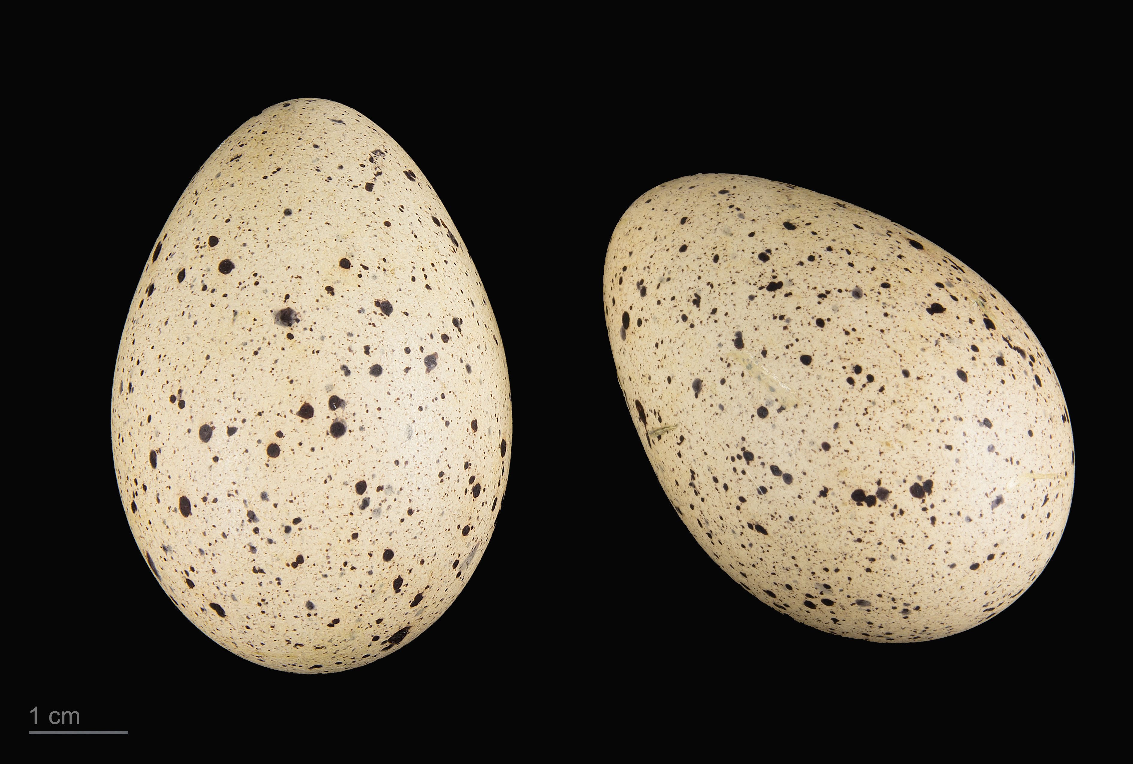 Eggs of red-knobbed coot Two specimens of the same spawn ; collection of Jacques Perrin de Brichambaut.